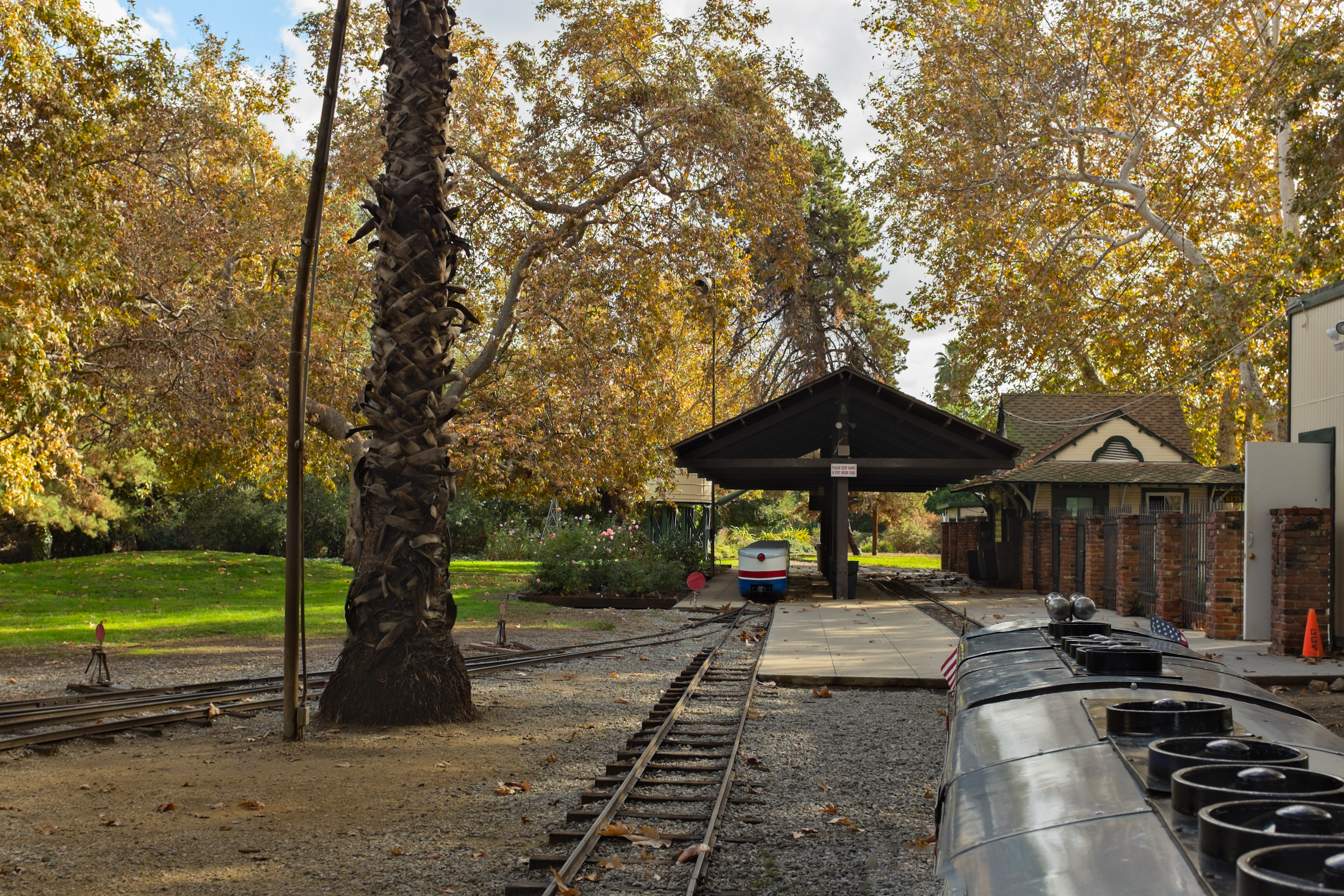 Griffith Park and Southern Railroad train approaching the Los Feliz station (the only station).